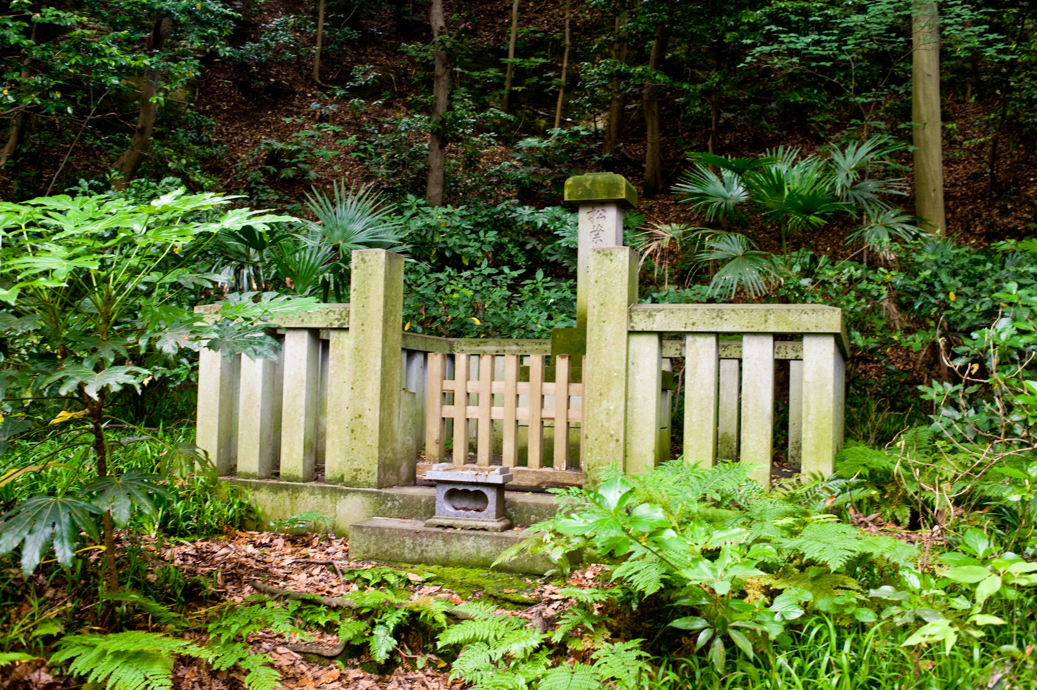 The location where Nichiren had his hut at Myōhō-ji, Kamakura